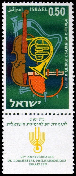 Israeli postal stamp issued towards '25th anniversary of the Israel Philharmonic Orchestra - 0.50 Israeli lira